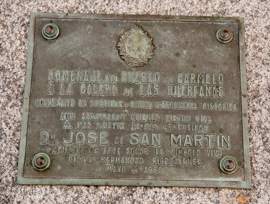 Calera de las Huérfanas. Colonia. Uruguay